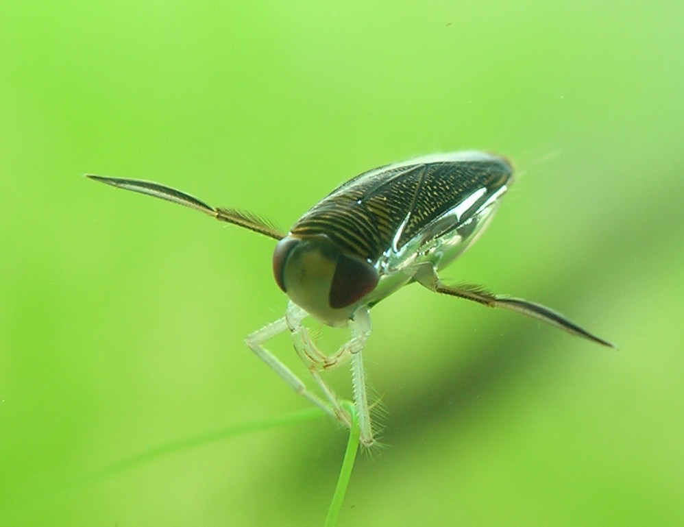 Corixa punctata from the Netherlands (species uncertain)